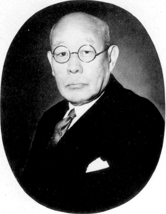 Itami Jiro